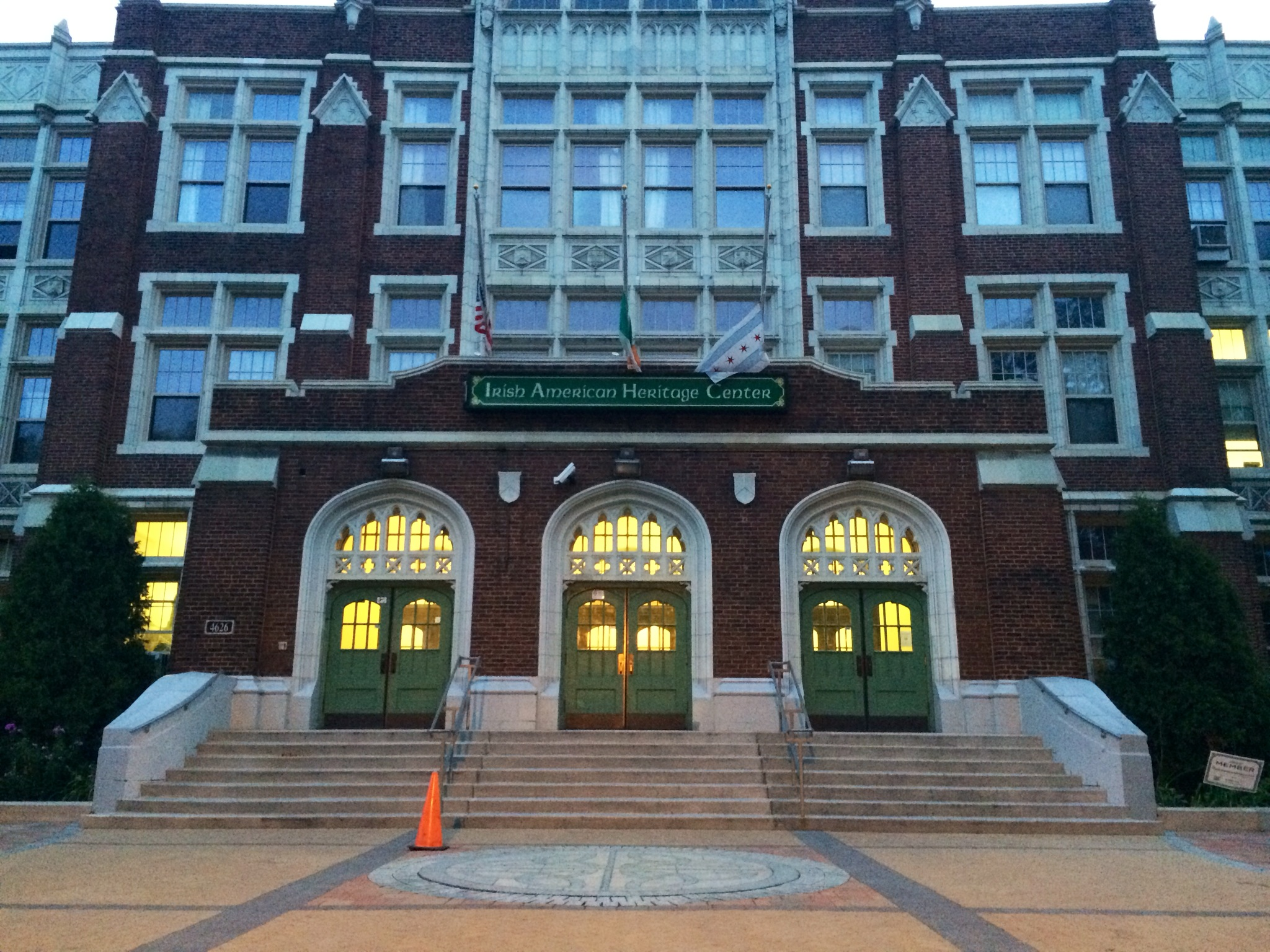 Irish American Heritage Center in Irving Park, Chicago, IL